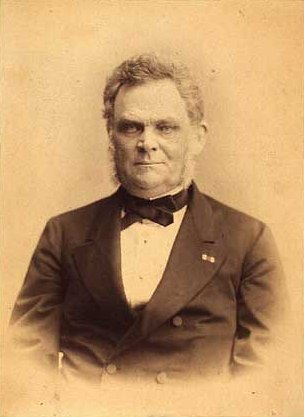 Danish politician, Mayor of Elsinore, MP, Jacob Baden Olrik (1802-1875)